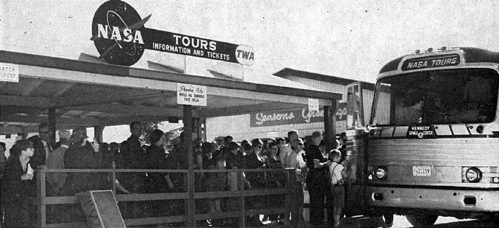 TWA operated tours of the Kennedy Space Center from the mid 60 to at least the mid 1970s KSC visitors board a tour bus at the original interim Visitor Information Center during the 1966 Christmas holidays.